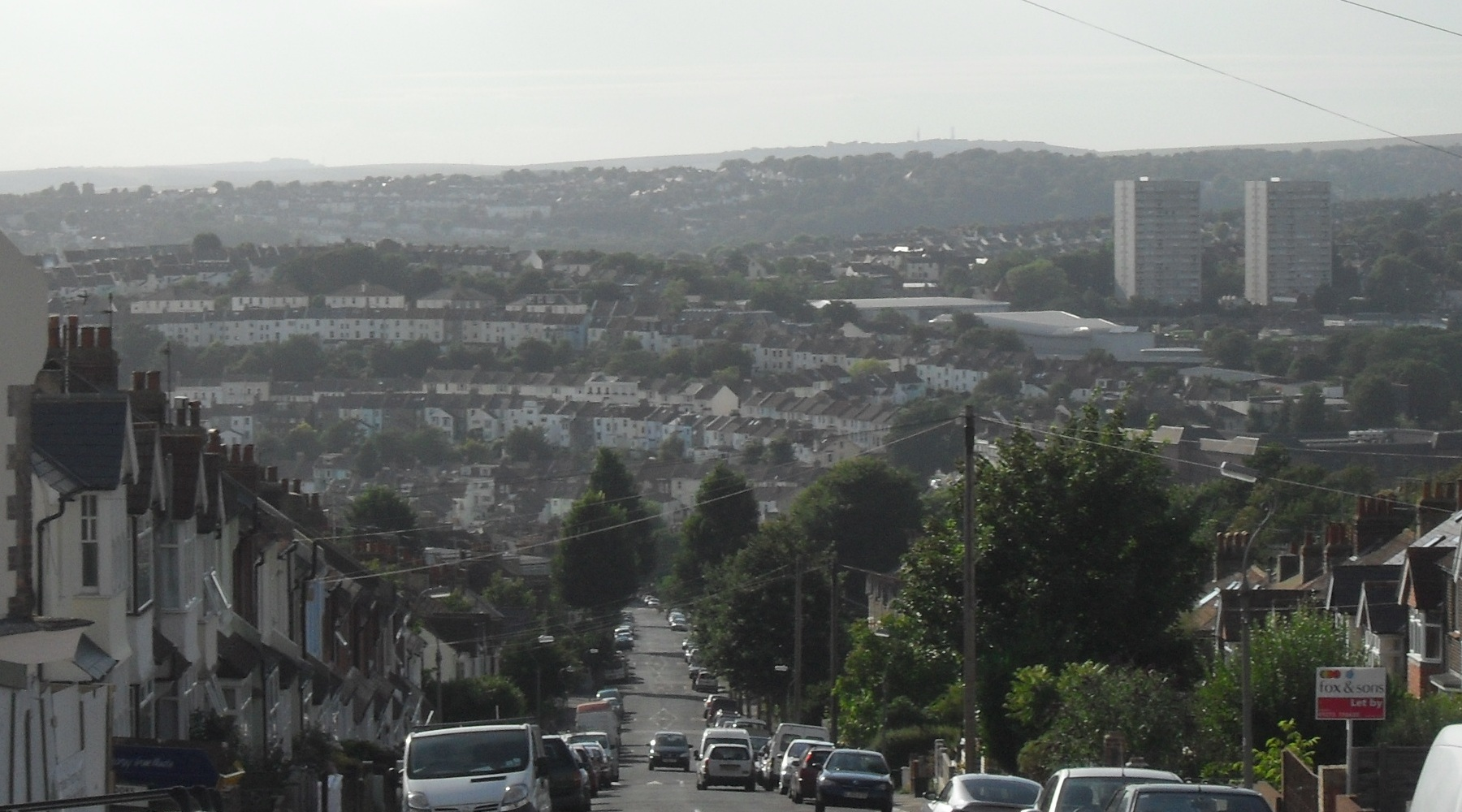 View down Hartington Road, Brighton, City of Brighton and Hove, England. This looks westwards down the hill from the east (top) end, towards Round Hill and Preston Park. The Hollingdean Flats are on the right.